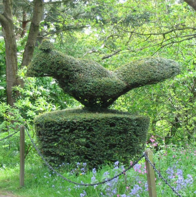 Yew topiary Chirk Castle